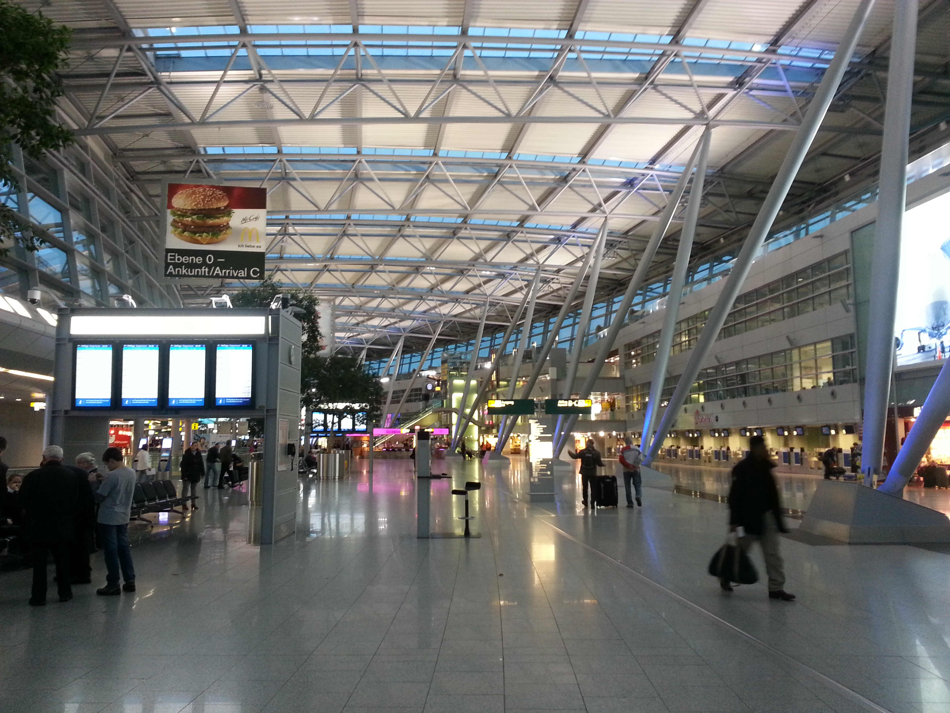 Düsseldorf Airport